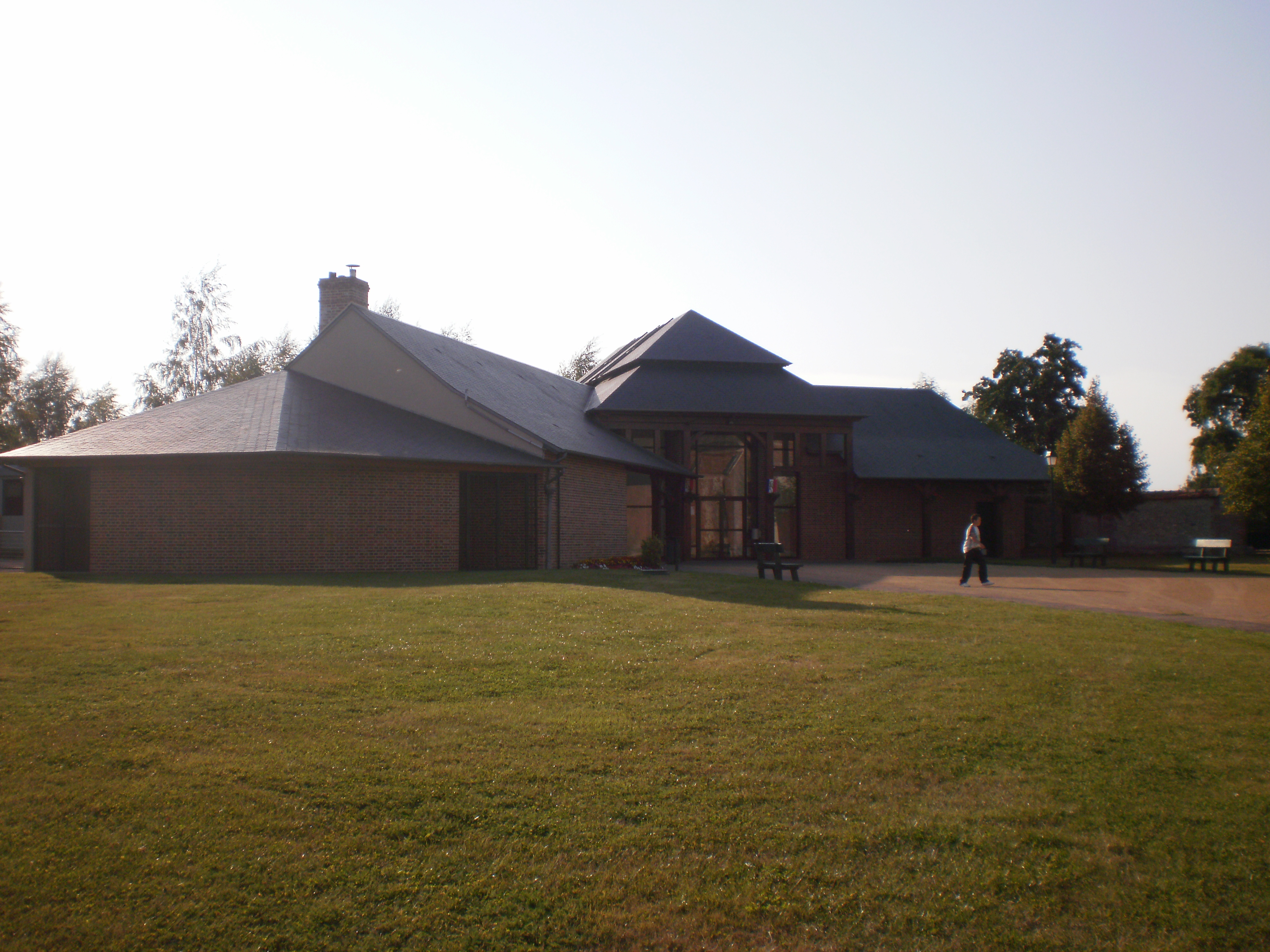 Cuigy-en-Bray (Oise, France)